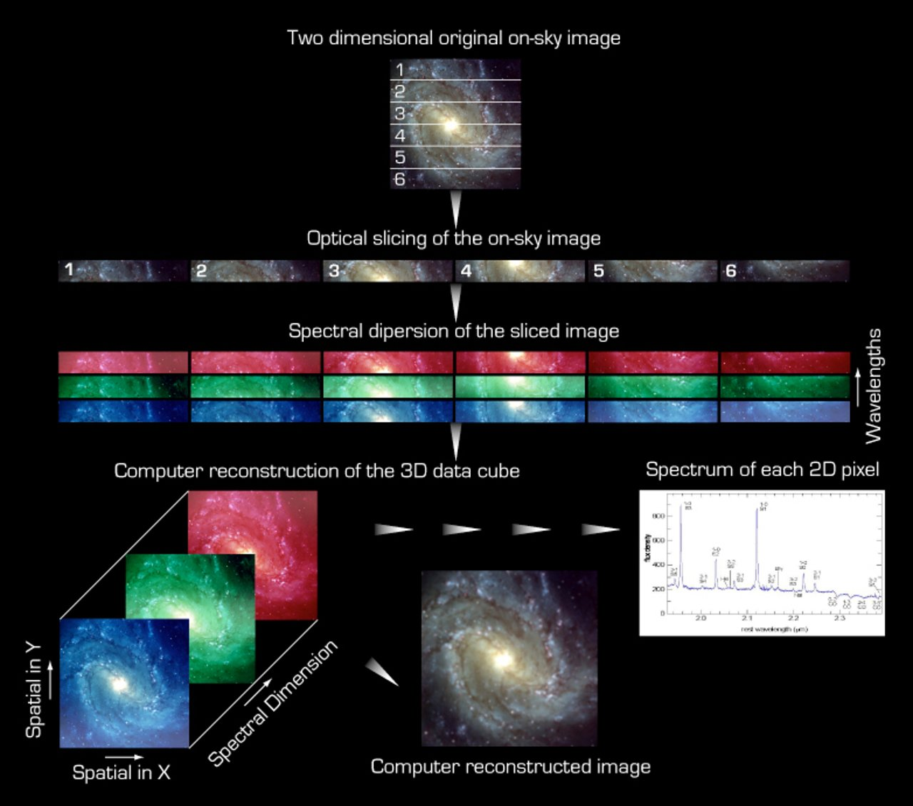 The principle of Integral Field Spectroscopy (IFS)